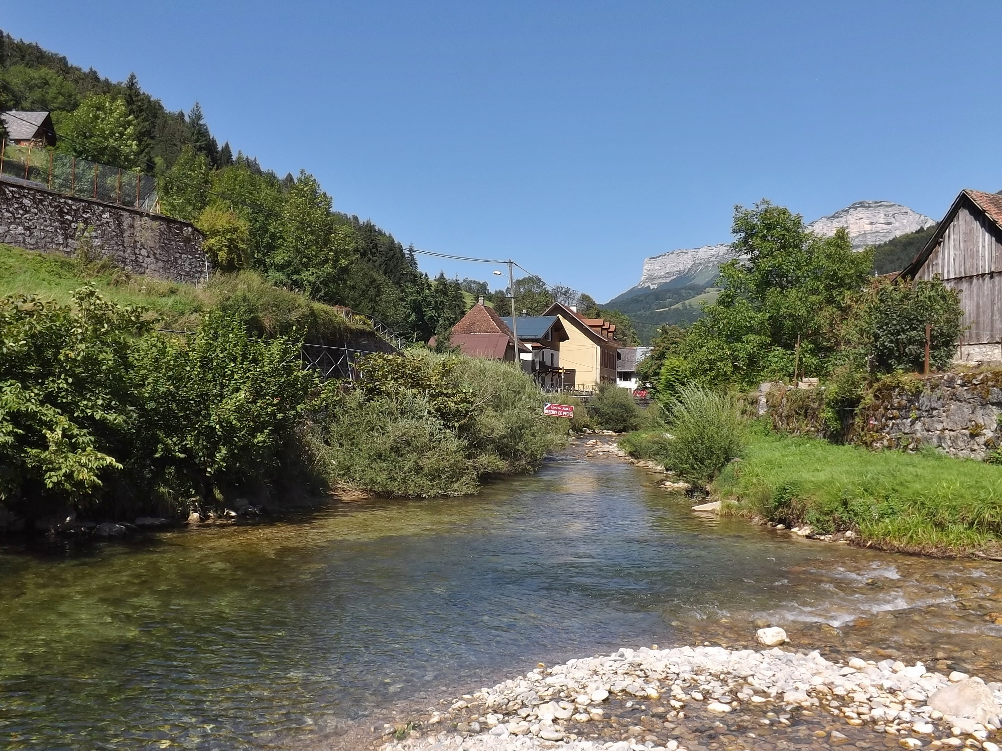 Sight of the Cozon river (ahead) flowing into the Guiers Vif river (from right to left), on the French villages of Saint-Pierre d'Entremont in Savoie (ahead) and Isère (back).